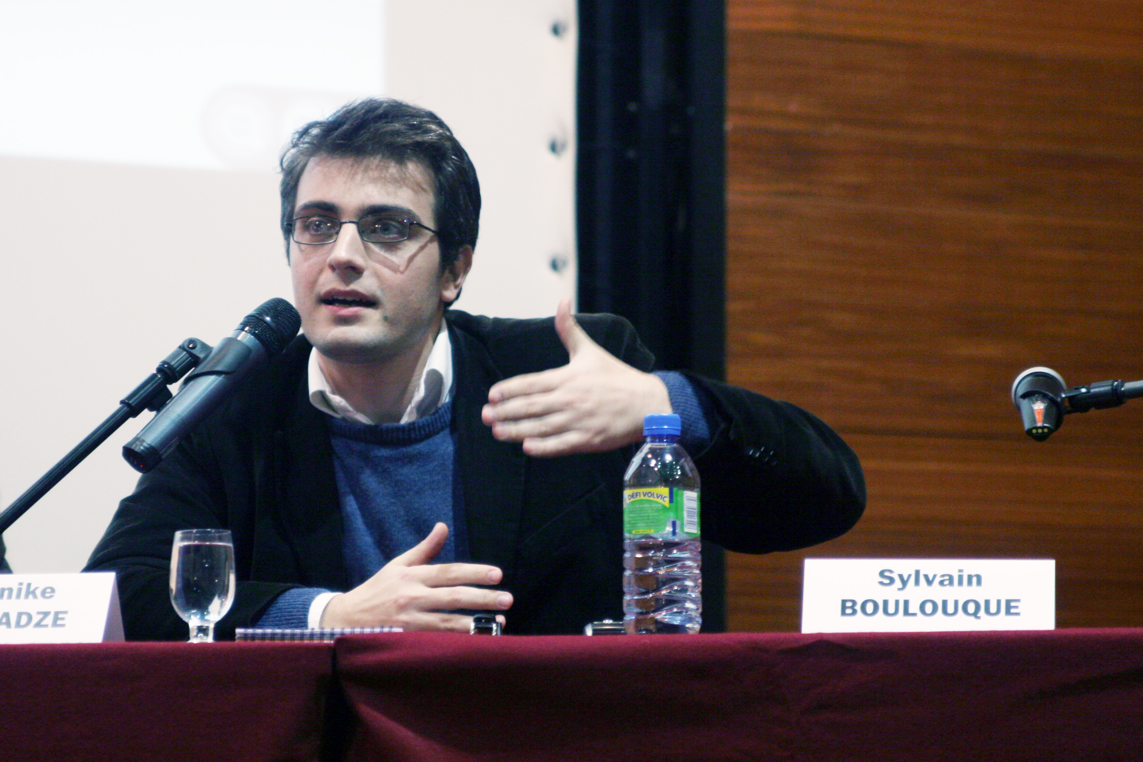 Tornike Gordadze